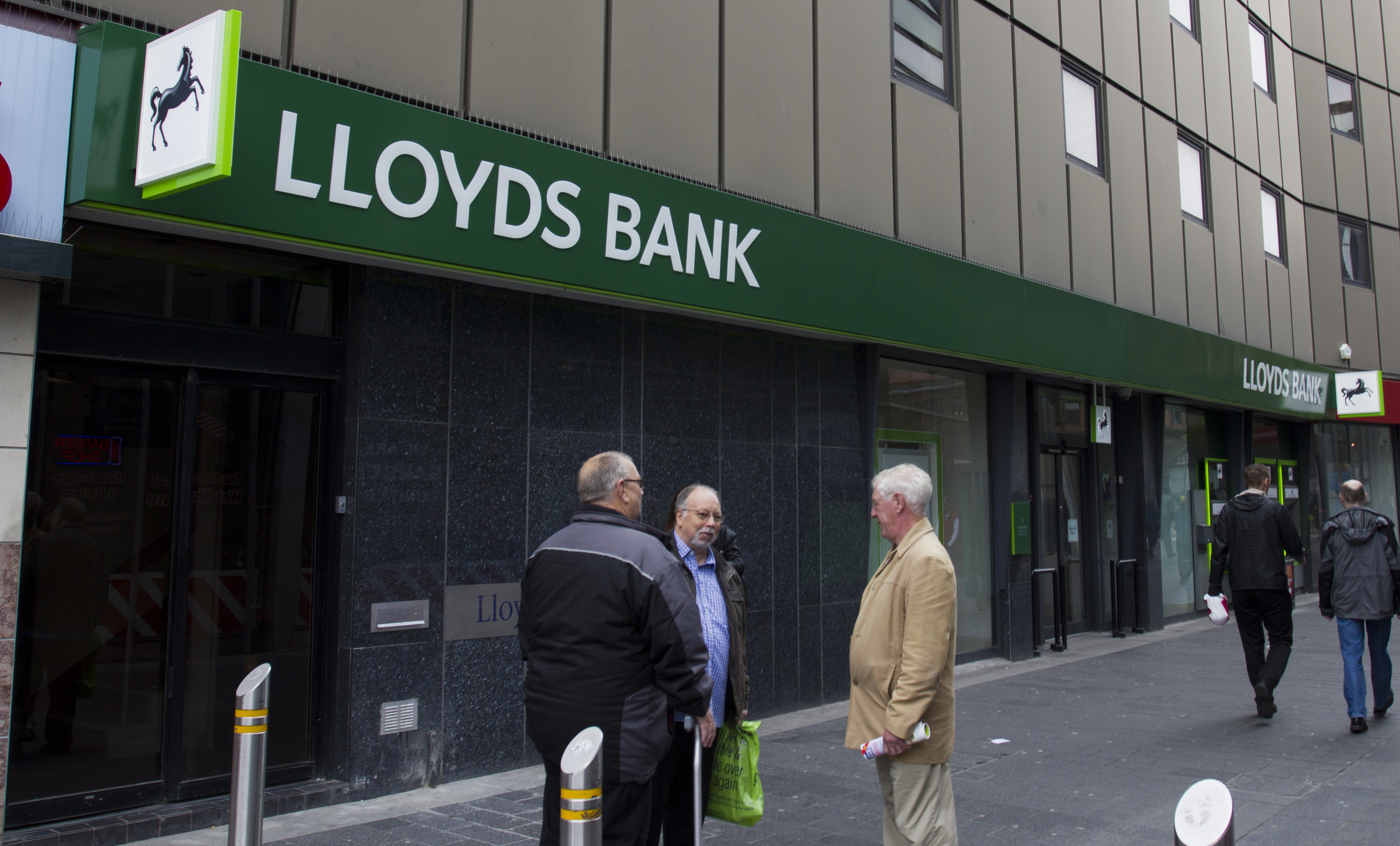 Lloyds Bank Newcastle upon Tyne Haymarket following the Lloyds-TSB to Lloyds Bank re-branding in September 2013